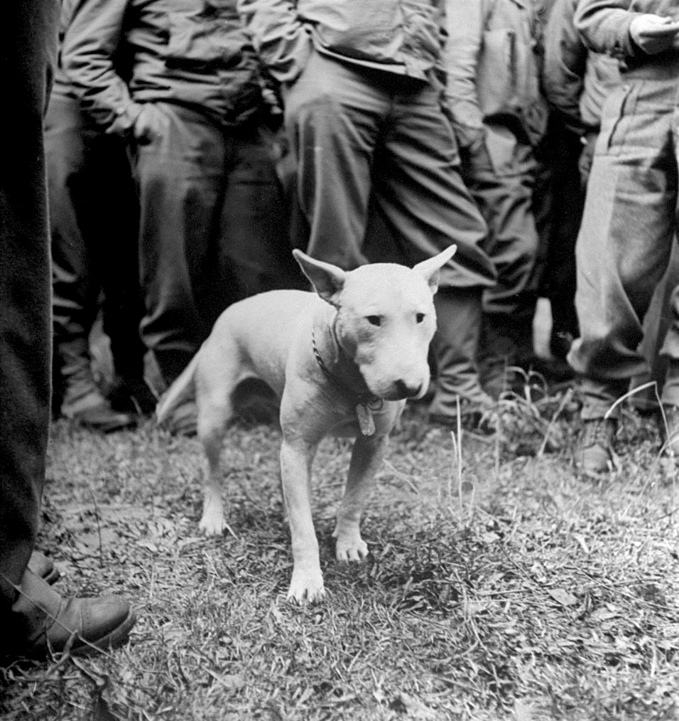 Photograph of Willie, pet Bull Terrier of General George S. Patton Photo is part of the lead feature story, "The Coming Battle for Germany"; subsection is titled "General Patton: U.S. Army's legendary fire-eater becomes hero of drive for Paris". Caption reads as follows: General's dog is Willie, bull terrier. He is one of the few dogs to wear regulation Army dog tag. Wille travels with Patton everywhere he goes. General Eisenhower has Scotty which travels with him.